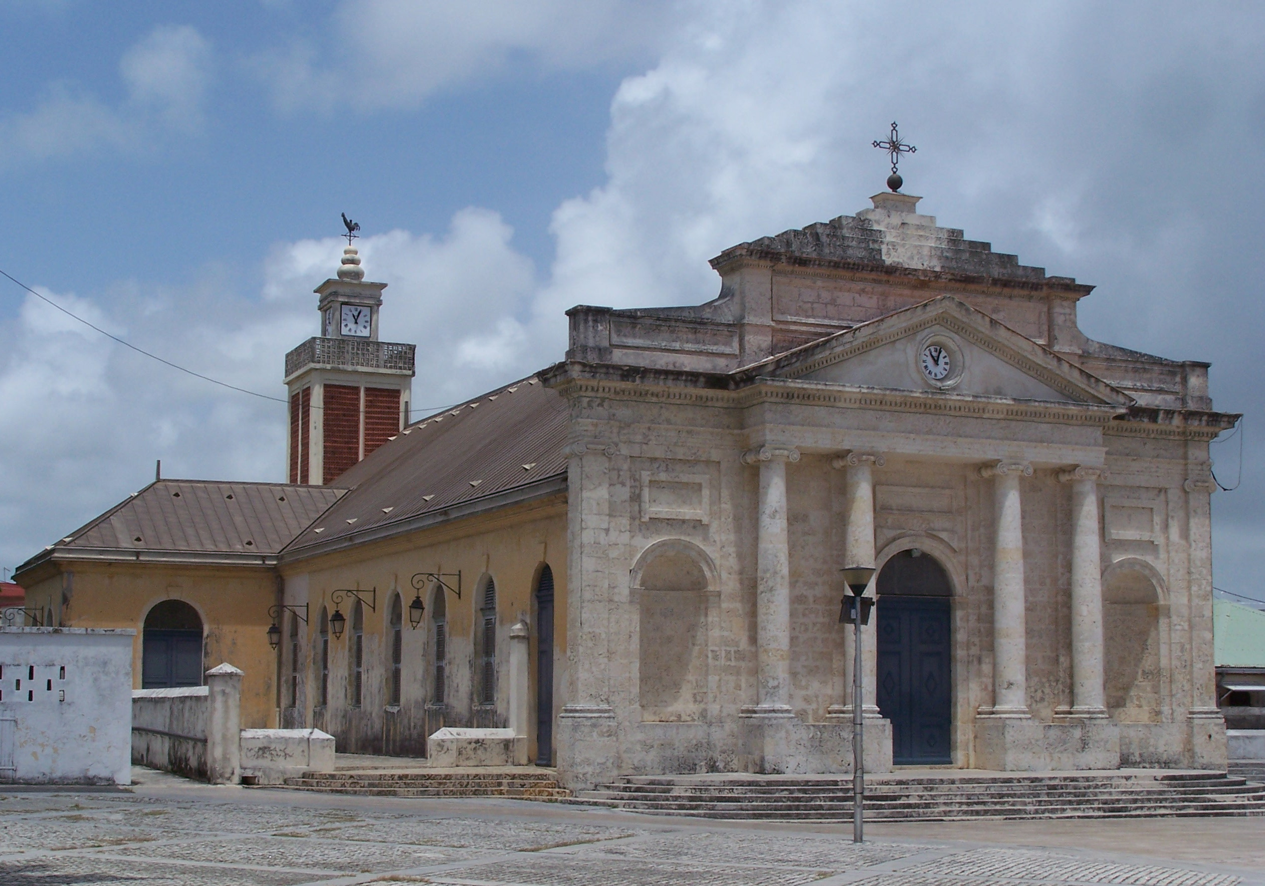 Église Saint-Jean-Baptiste au Moule en Guadeloupe